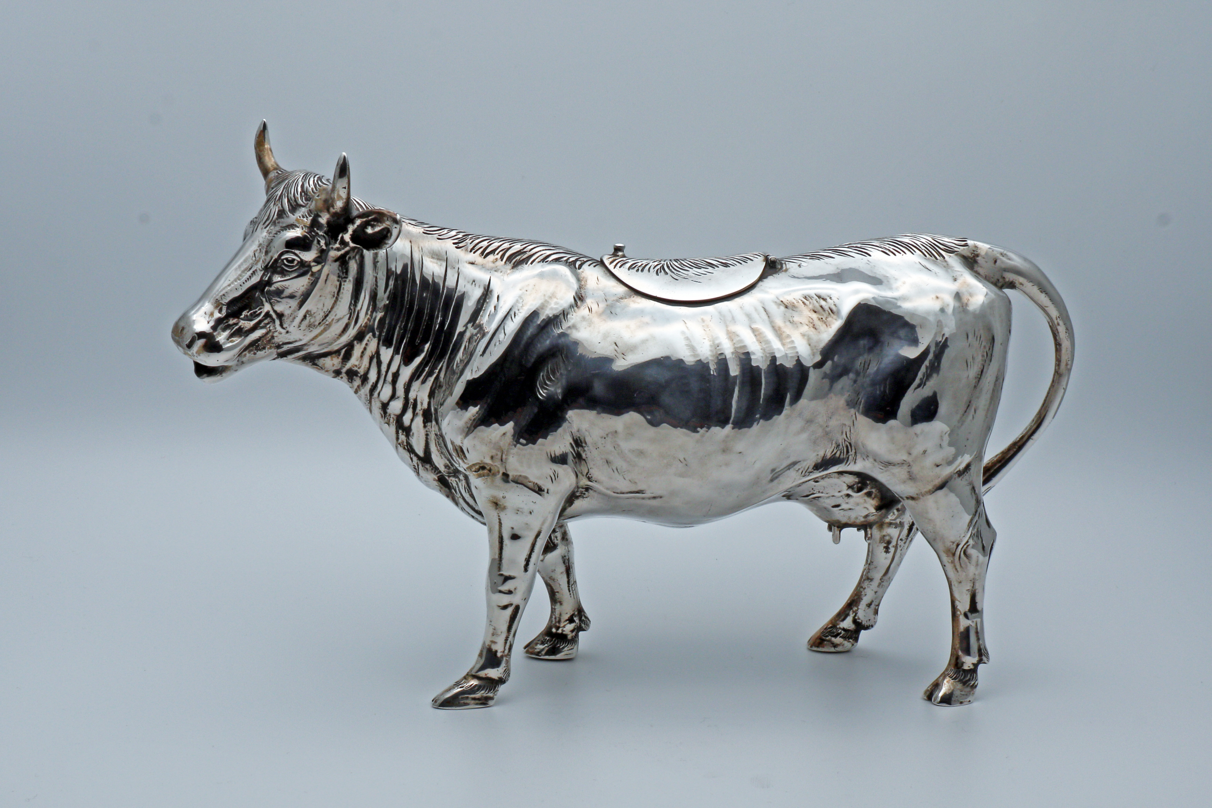 German Cow creamer by Jean L. Schlinghoff of Hanau. c.1900-1900